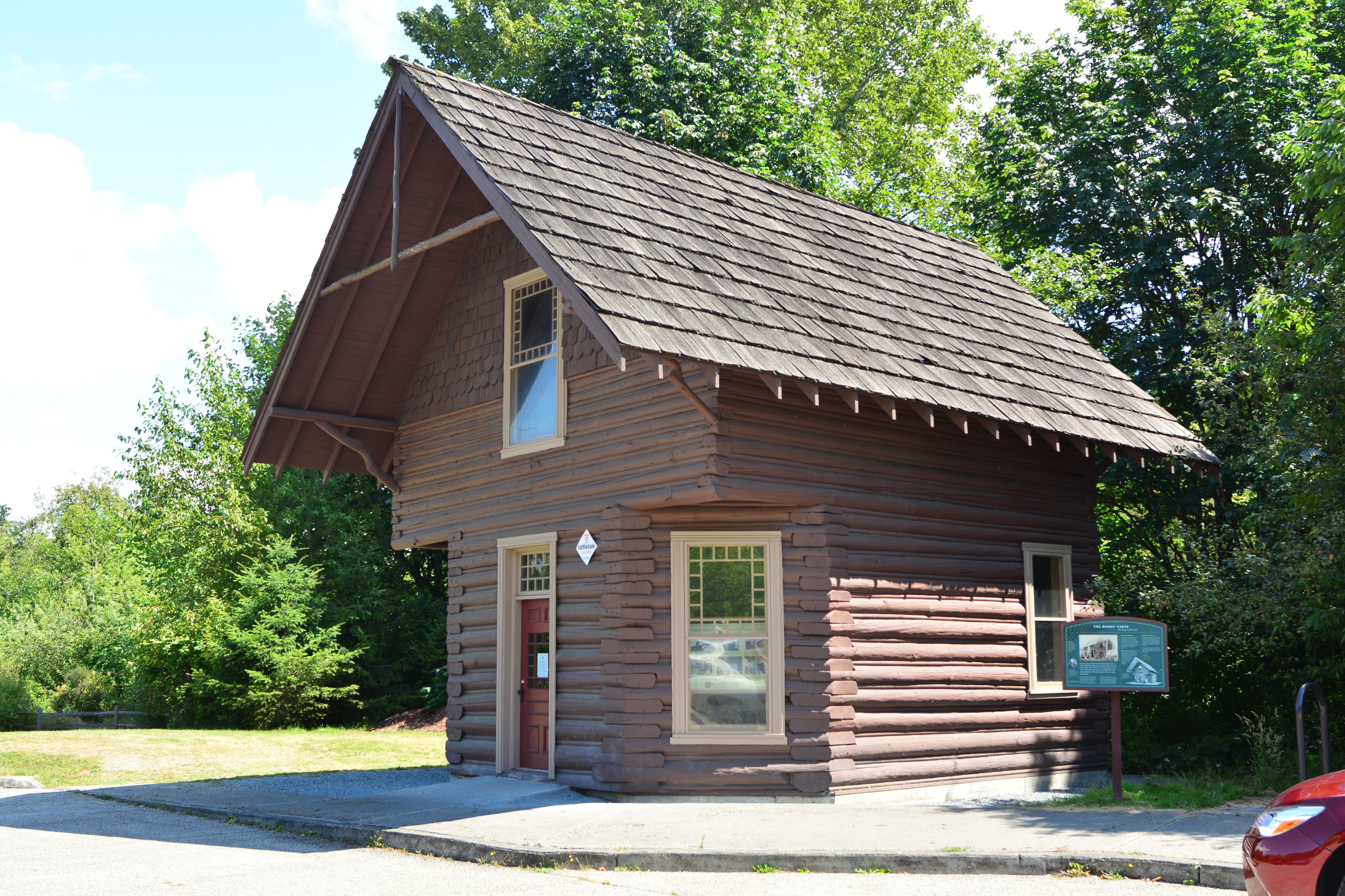 The much-transported much-restored "Denny Cabin" at the north entrance to West Hylebos Wetland Park, Federal Way, Washington. This log cabin has been relocated several times and served a variety of purposes; it was originally built in 1889 as a real estate office for David Denny at Temperance Avenue (now Queen Anne Avenue N) and Republican Street in Seattle.